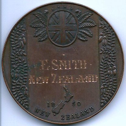 British Empire Games - 1950 - E Smith, New Zealand - Medal image